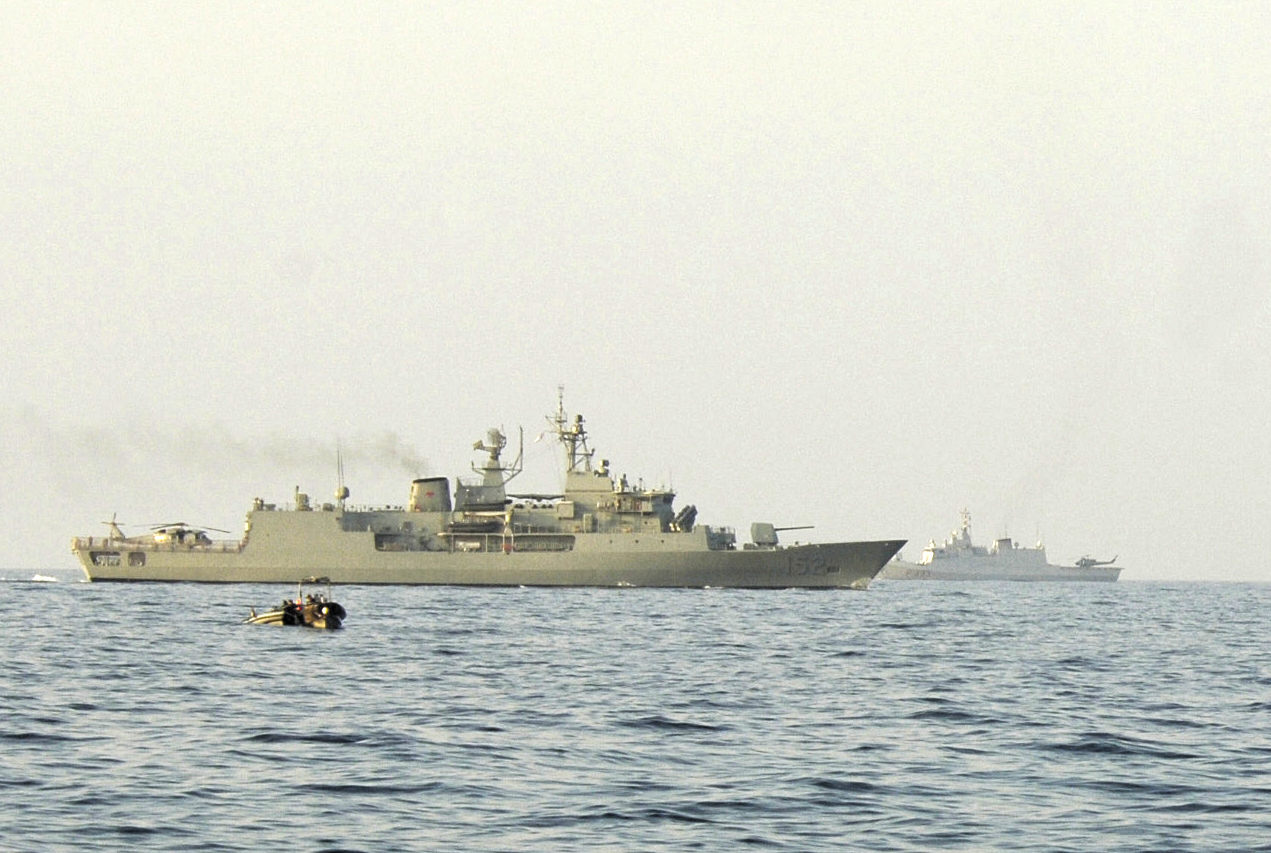 HMAS Warramunga (F 795) participates in naval maneuvers during Exercise "Leading Edge" in the Arabian Gulf on the 30th of October 2006. Naval and law enforcement personnel from Australia, Bahrain, France, Italy, the United Kingdom, and the United States participated in the exercise. Exercise Leading Edge is the maritime portion of a two-phase, multi-national proliferation security initiative (PSI) exercise. PSI is a response to the growing challenge posed by the proliferation of WMD, their delivery systems, and related materials worldwide.